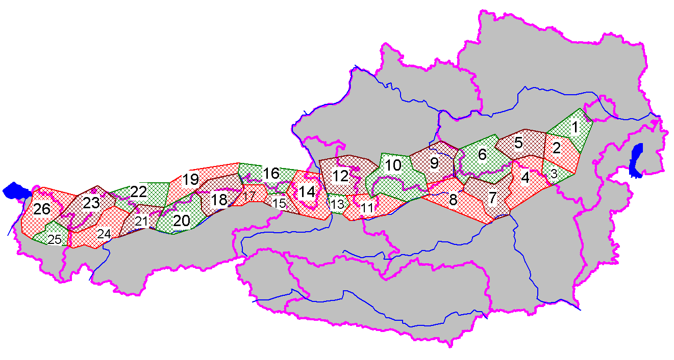 Map with the groups of the Northern Limestone Alps (purple lines showing international borders and the borders of Austrian states)